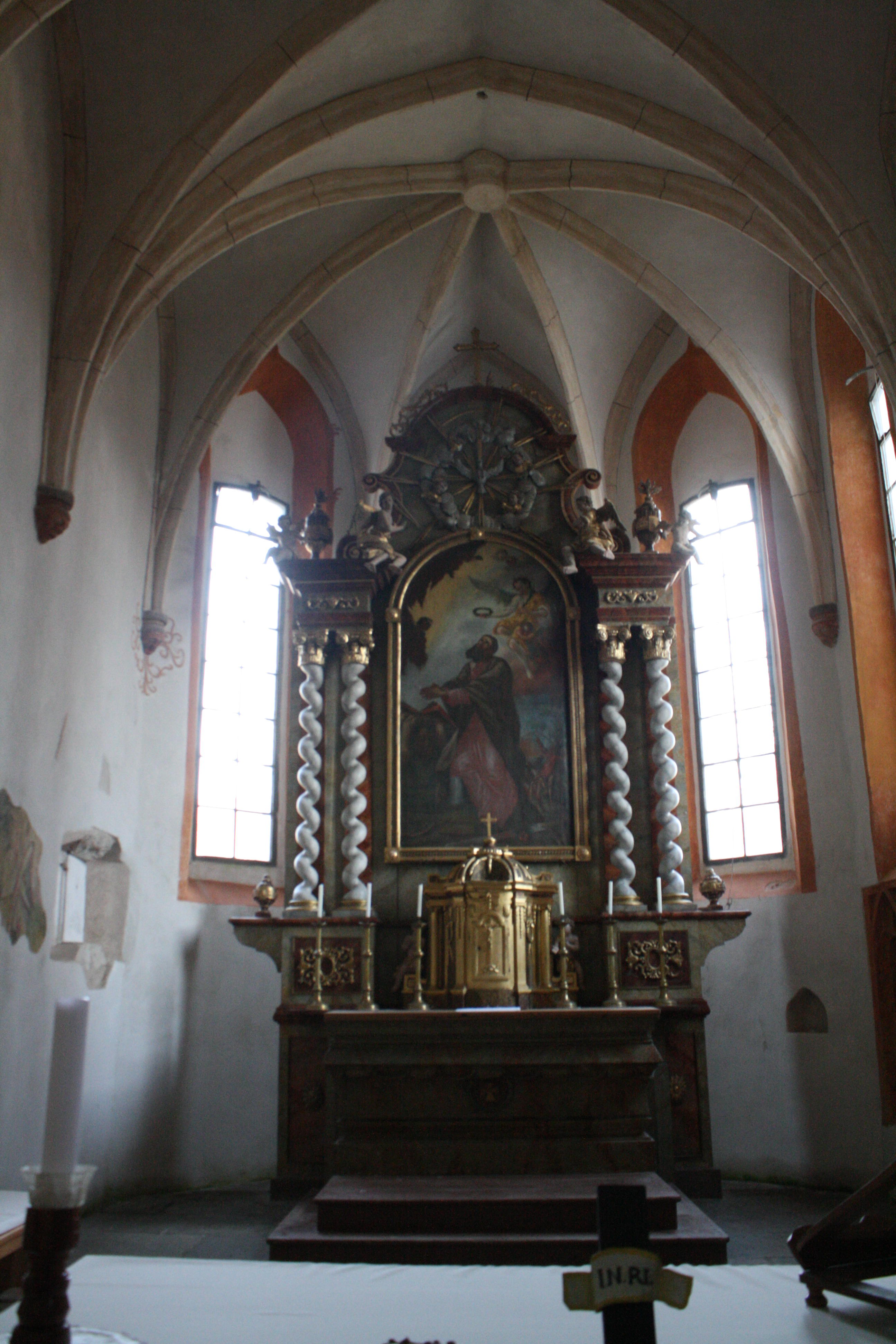 Mladošovice, Church of of Saint Bartholomew (interior)